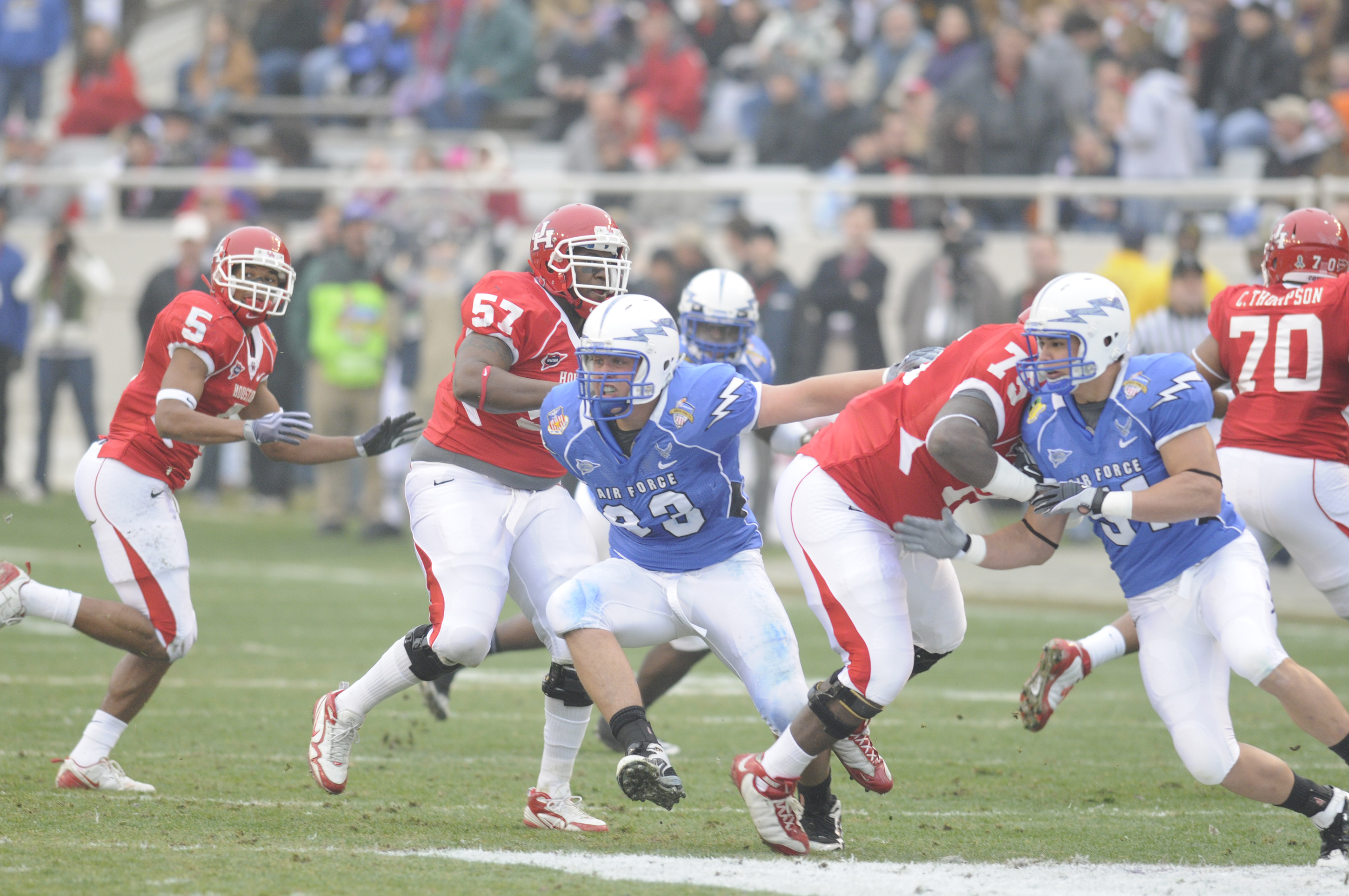 Falcons defensive lineman Ben Garland and defensive end Myles Morales slip past members of the University of Houston Cougars during the Armed Forces Bowl Dec. 31, 2009, at Fort Worth, Texas. Air Force Academy took the win 41-20. VIRIN: 091231-F-0000E-871